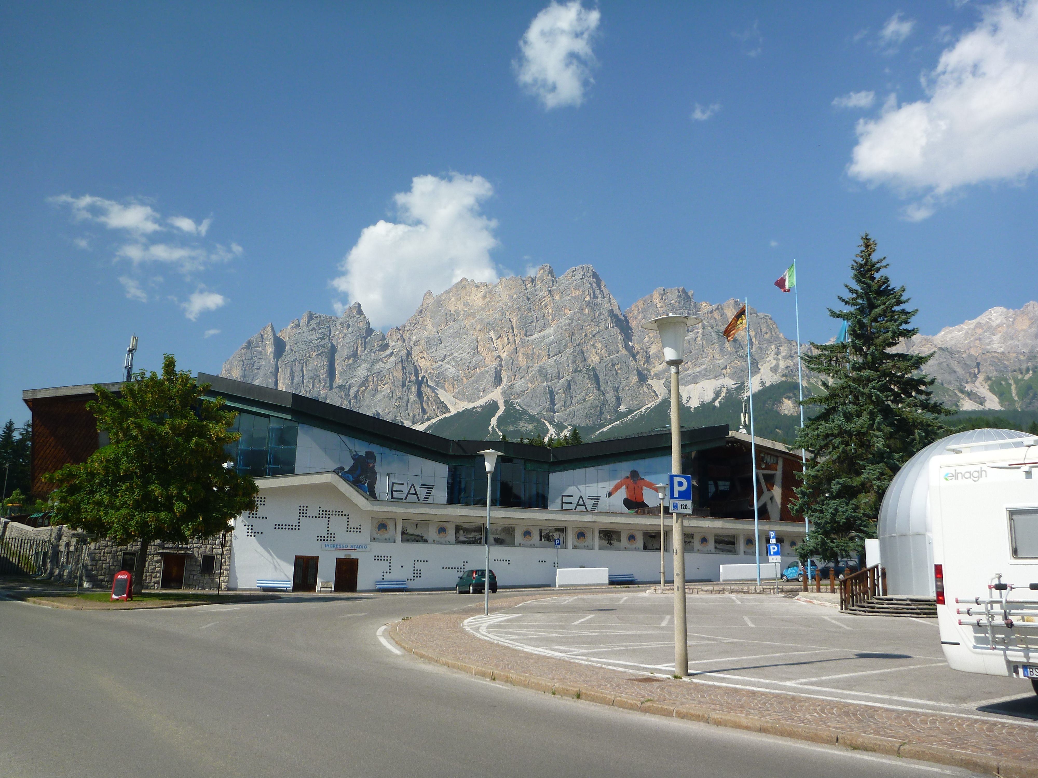 Stadio Olympica, Stadio Olimpico del Ghiaccio (Italian: Olympic Ice Stadium) in Cortina d’Ampezzo